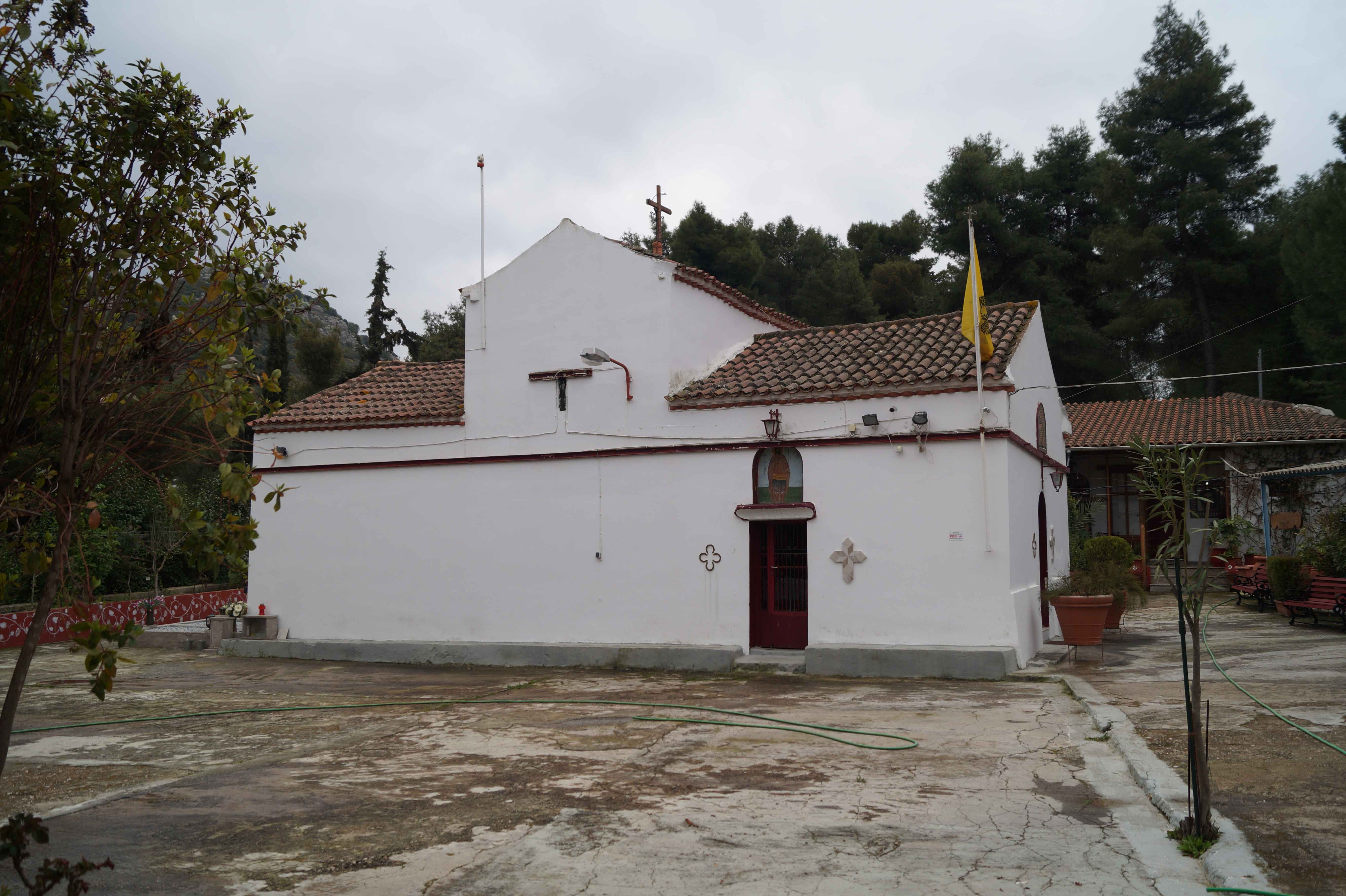 Agios Adrianos, Argolis, Greece: Pilgrimage church.